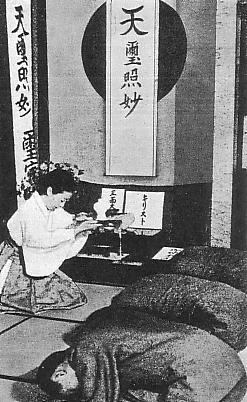 Jiu(Japanese new religious movement organization)